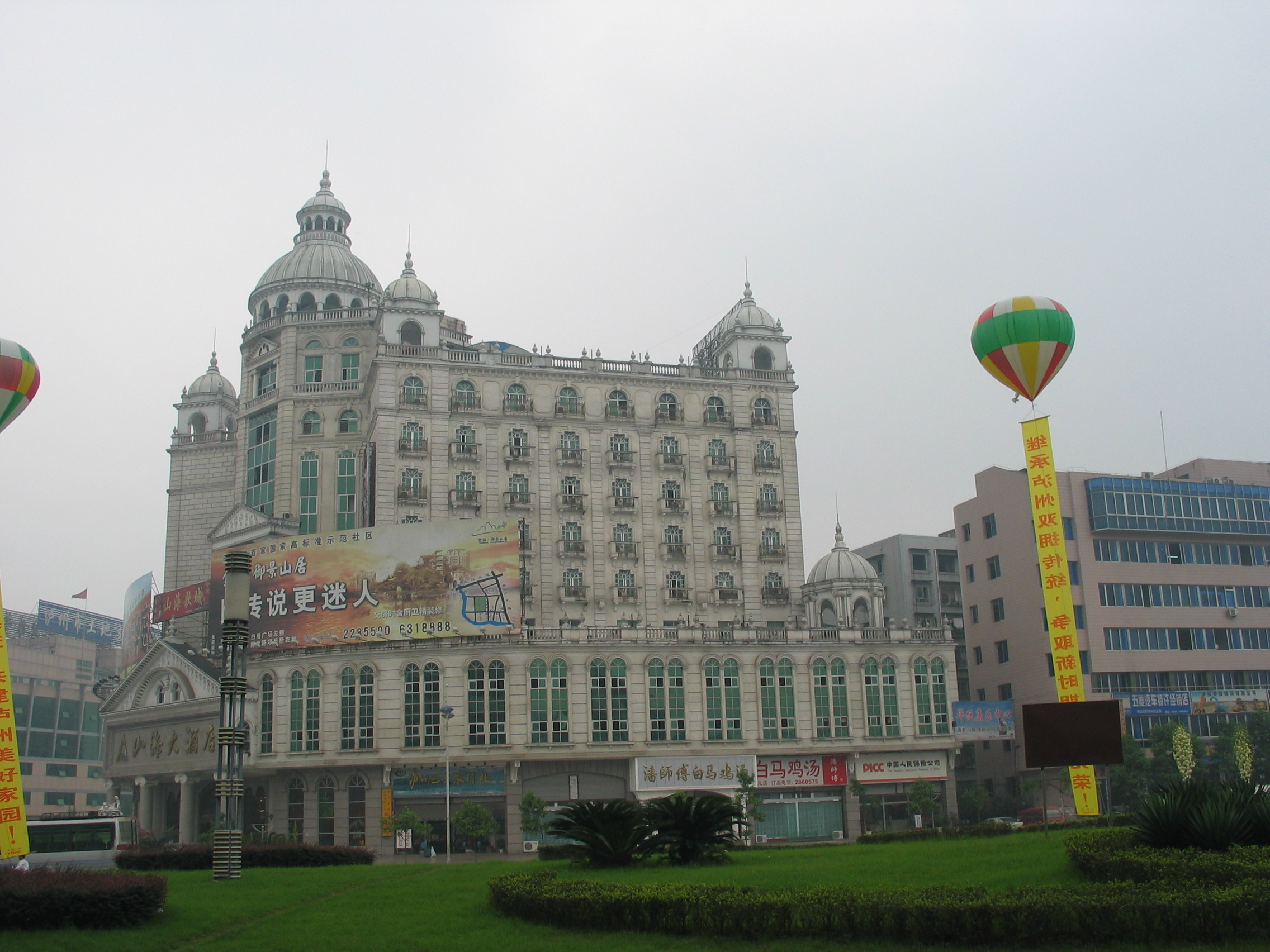 Street scene, Luzhou, Sichuan, China